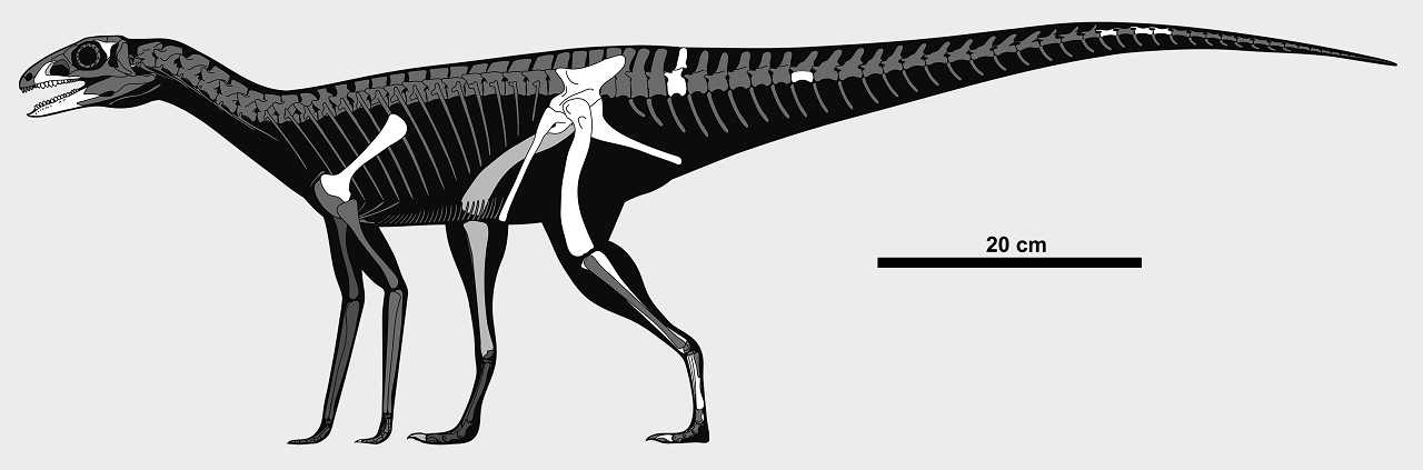 Digital drawing of the known skeletal remains of Sacisaurus agudoensis. Known elements represented in white.